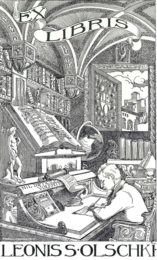 Leo Olschki (Italian publisher) ex libris